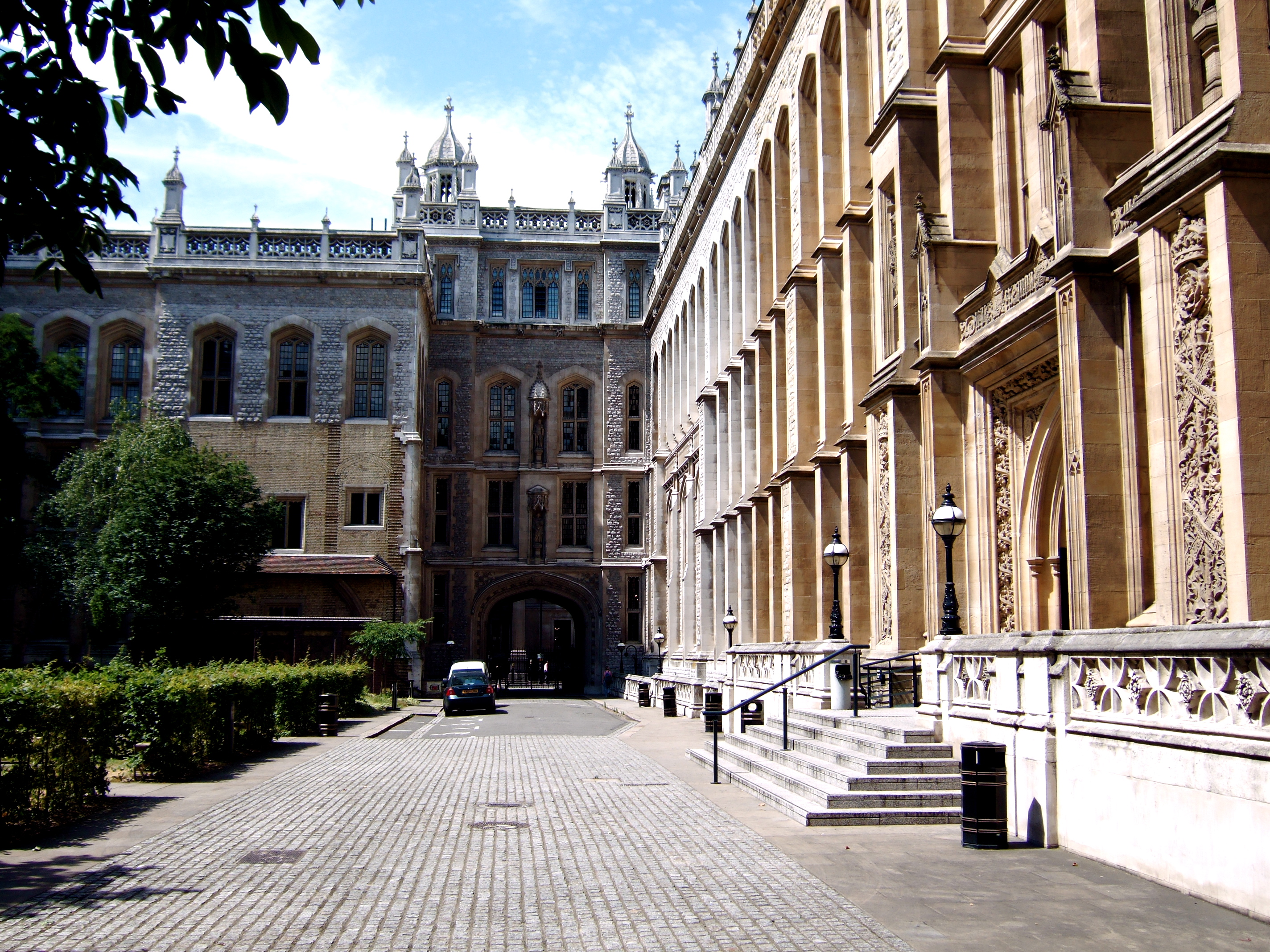 The Maughan Library on Chancery Lane, London. Houses King's College London's Humanities and Law collection, as well as some science items.